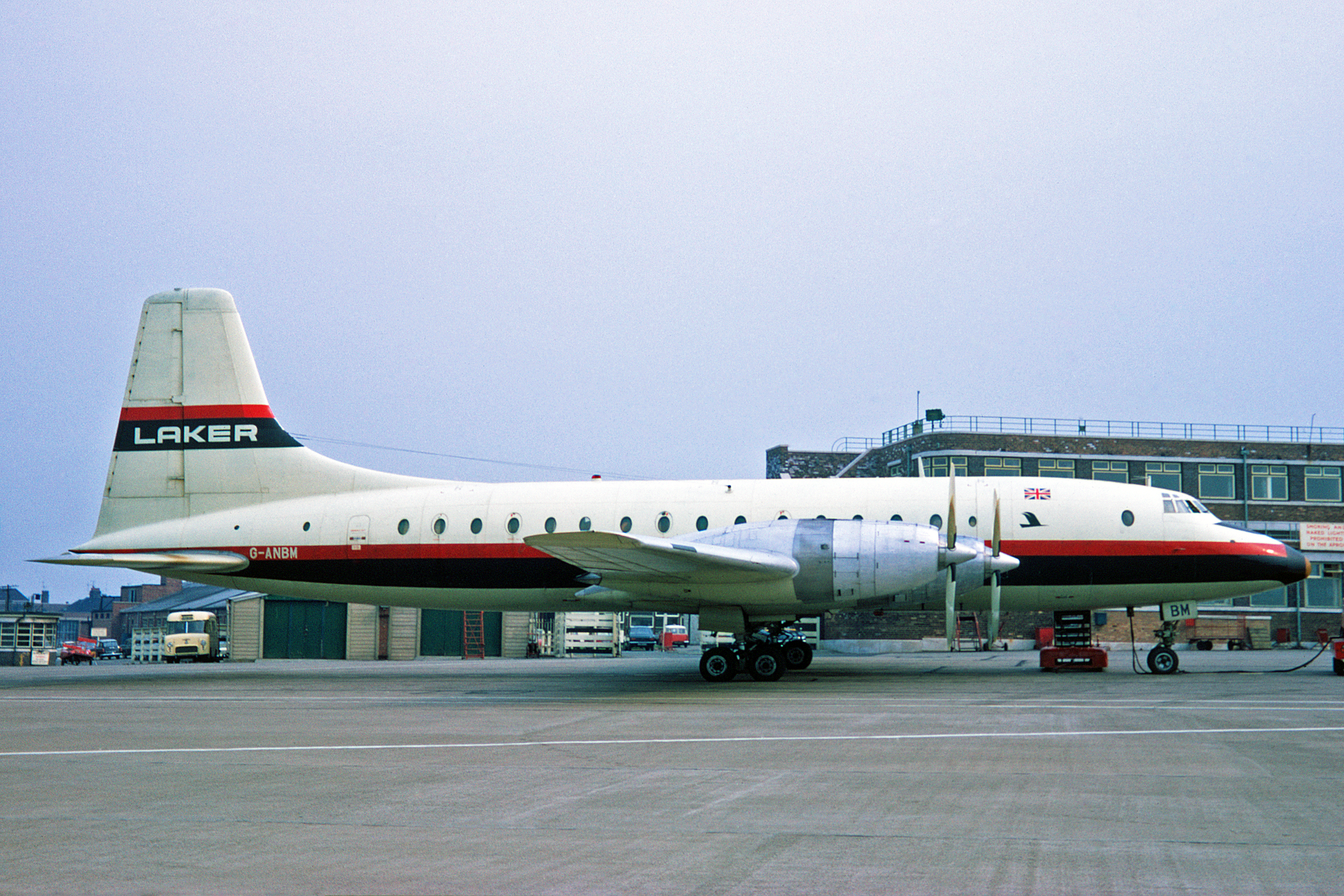 Laker Airways Bristol Britannia 102 (G-ANBM) at Liverpool Airport